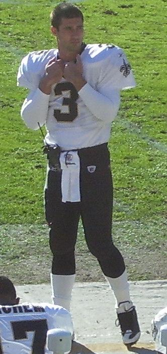 QB Joey Harrington, NFL quarterback (pictured here in 2008 with the New Orleans Saints). November 16, 2008 vs. Kansas City Chiefs at Arrowhead Stadium in Kansas City, MO.